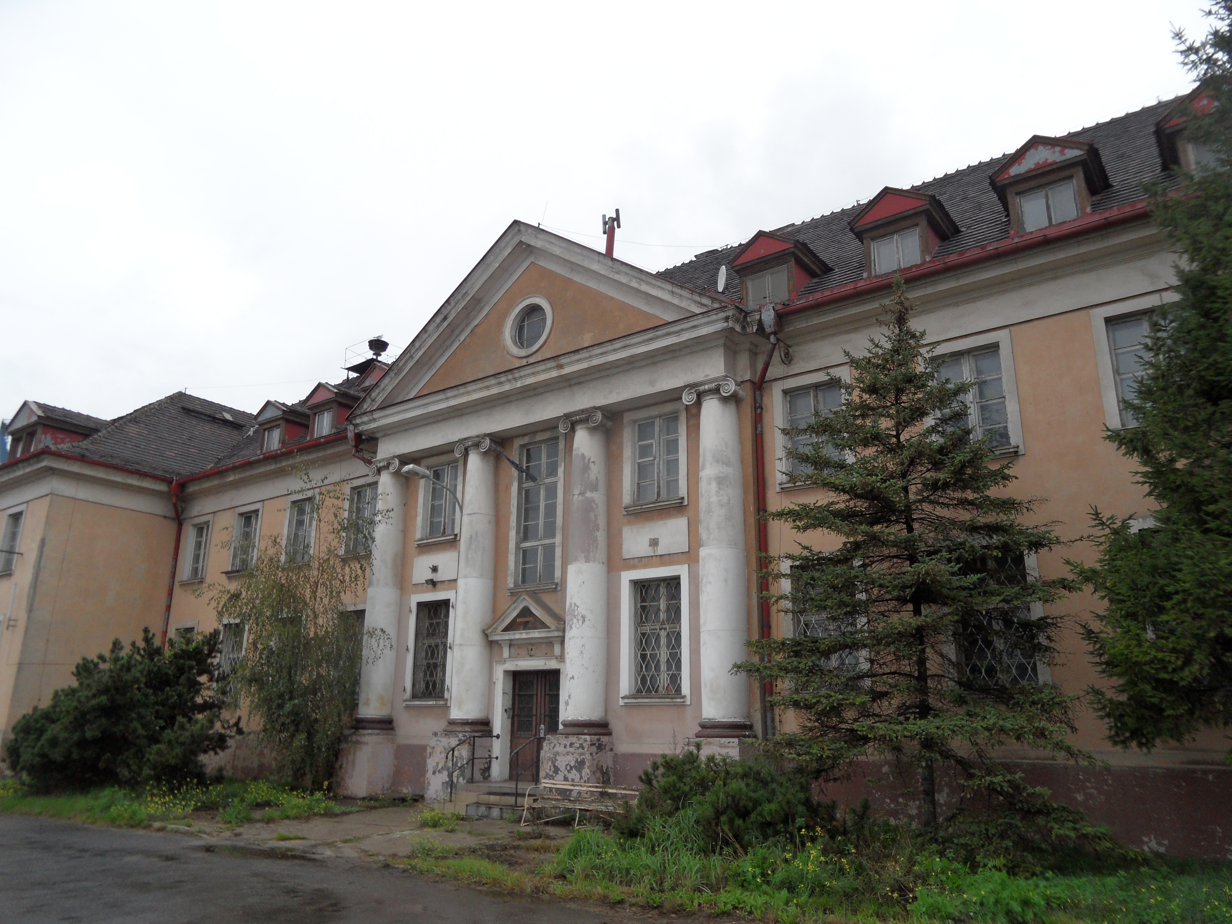 Polish Post Office 3 Free City of Danzig, 1927